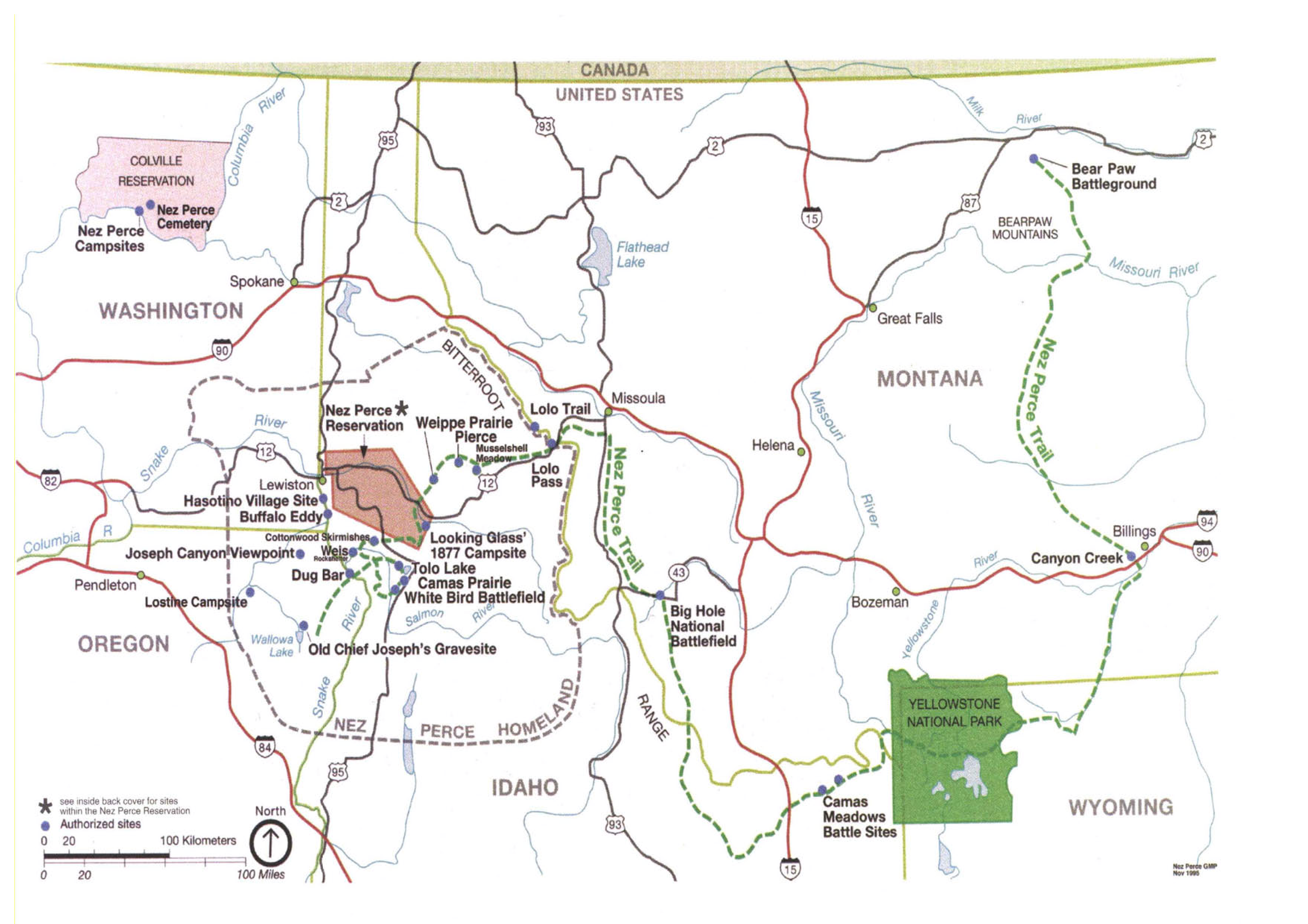 map of Nez Perce National Historical Park